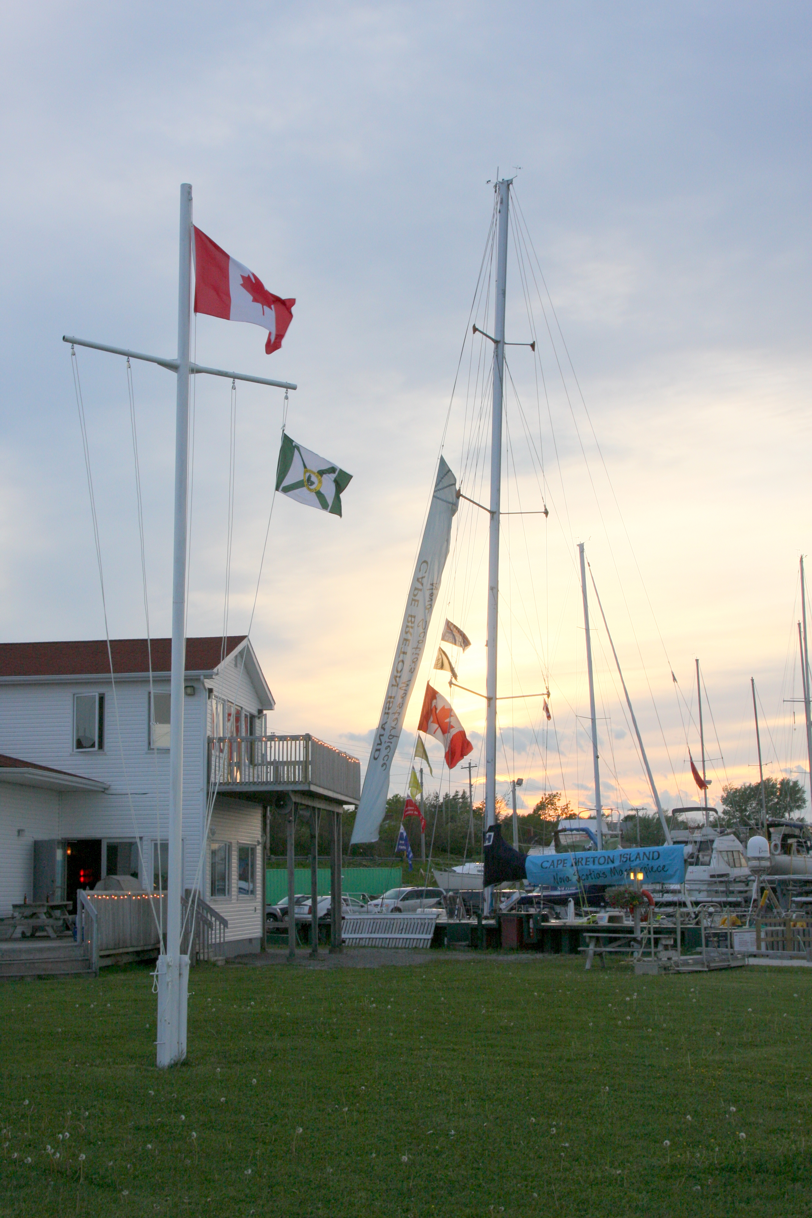 Photo of the harbour side flag pole and lawn of the Dobson Yacht Club in Westmount, Nova Scotia during a visit by the Clipper Round the World Yacht Race Clipper 68 Cape Breton Island.